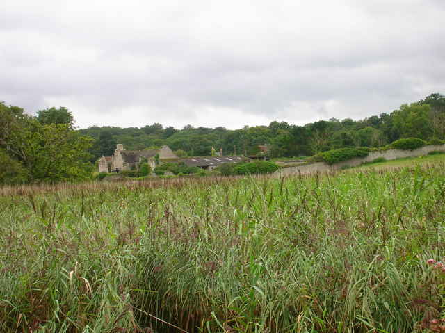 Remains of Quarr Abbey Former Cistercian monastery built in 1132 by the then Lord of the Isle of Wight. The outer walls were constructed in 1340 as a defence against piracy then rife in the area. The monastery was dissolved in 1536 and sold to a local merchant who pulled down much of the abbey and used the stone in the fortifications of Cowes and Yarmouth. Taken from the beach looking towards the sea defences and the ruined buildings beyond.